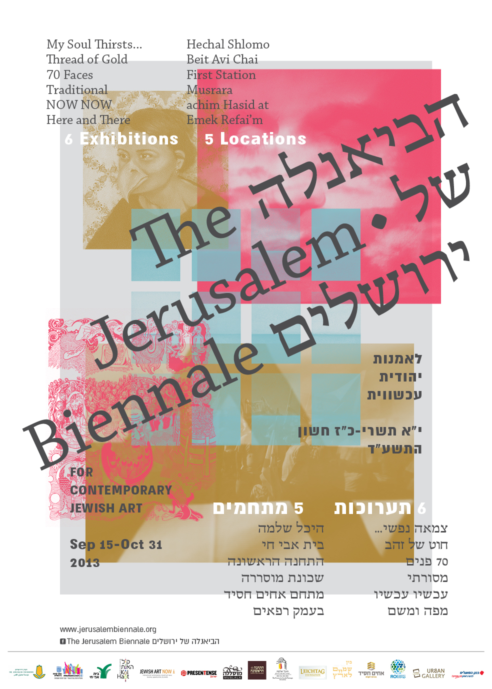 The poster for the first Jerusalem Biennale that was held in 2013, poster created for the Jerusalem Biennale by Grotesca Design